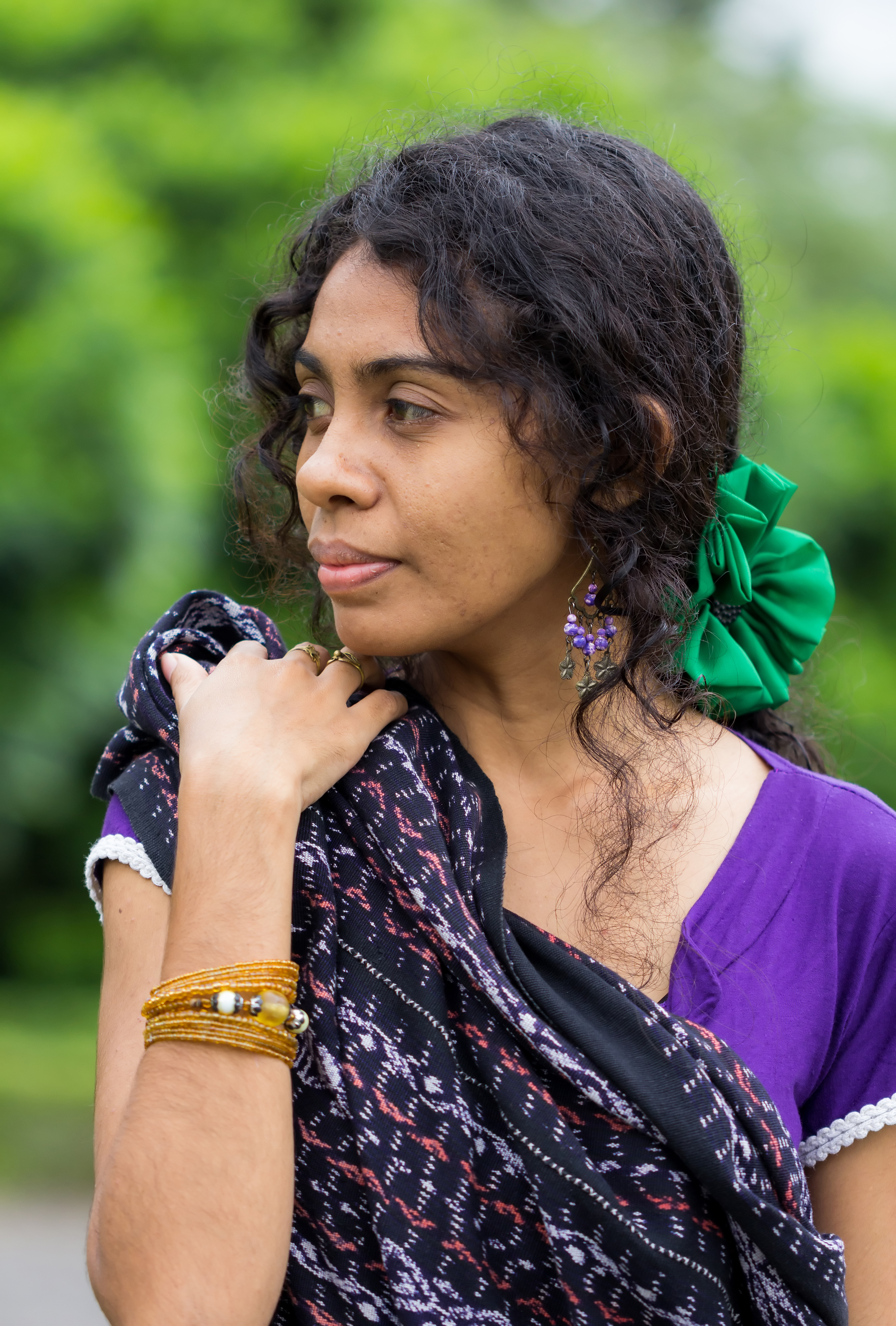 Indonesian poet Monika N. Arundhati at the Gebang Temple Complex